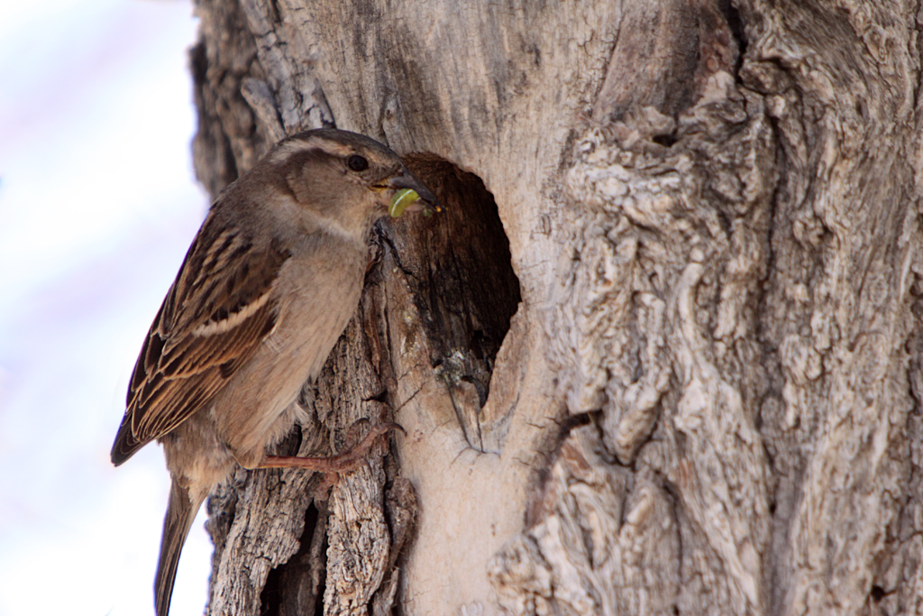 A pair of house sparrows nested inside a tree hole near Mojave, California, USA. While the male keeps guard (not seen in the photograph) and fights of a pesky Scrub Jay, the female flies frequently in to the hole to feed her young. For this photograph the camera was set up and fired remotely as the bird landed on the hole in the tree. The photographer was hiding behind a wall.